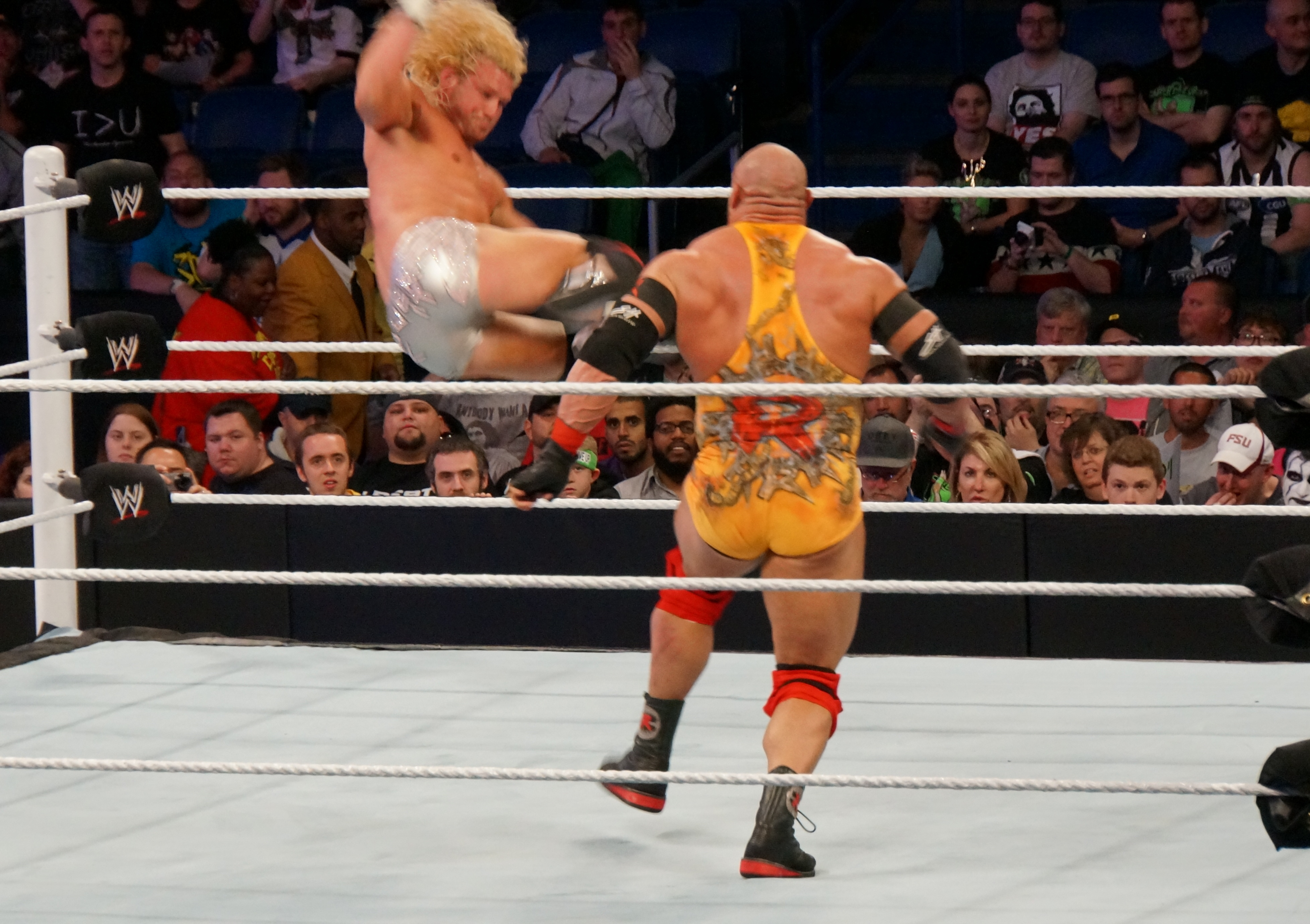 Dolph Ziggler wrestles Ryback before the post-WrestleMania Raw on 7 April 2014.